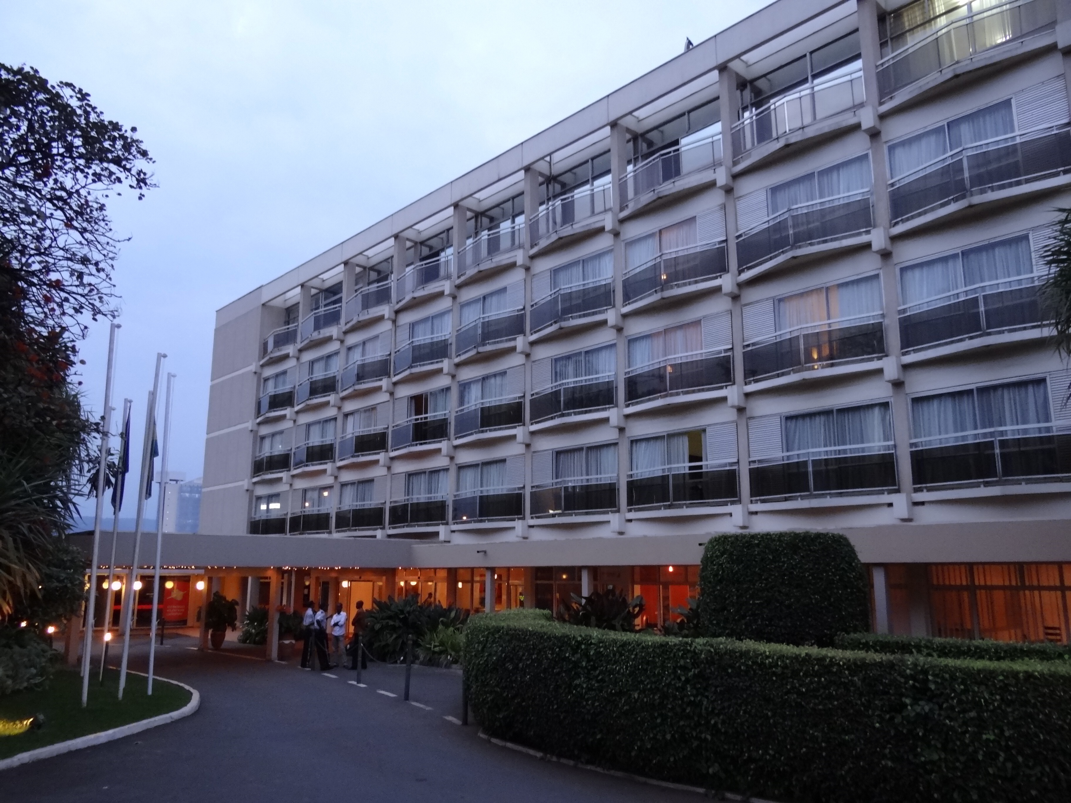 Facade of Hotel des Mille Collines - a.k.a. Hotel Rwanda - Kigali - Rwanda